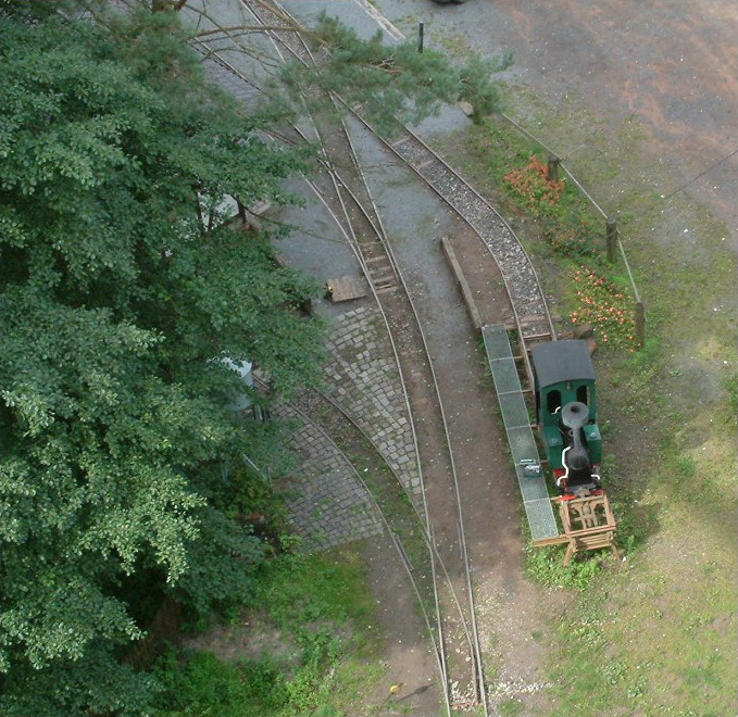 Light railway near Eiswoog, Pfalz (Germany) (2)